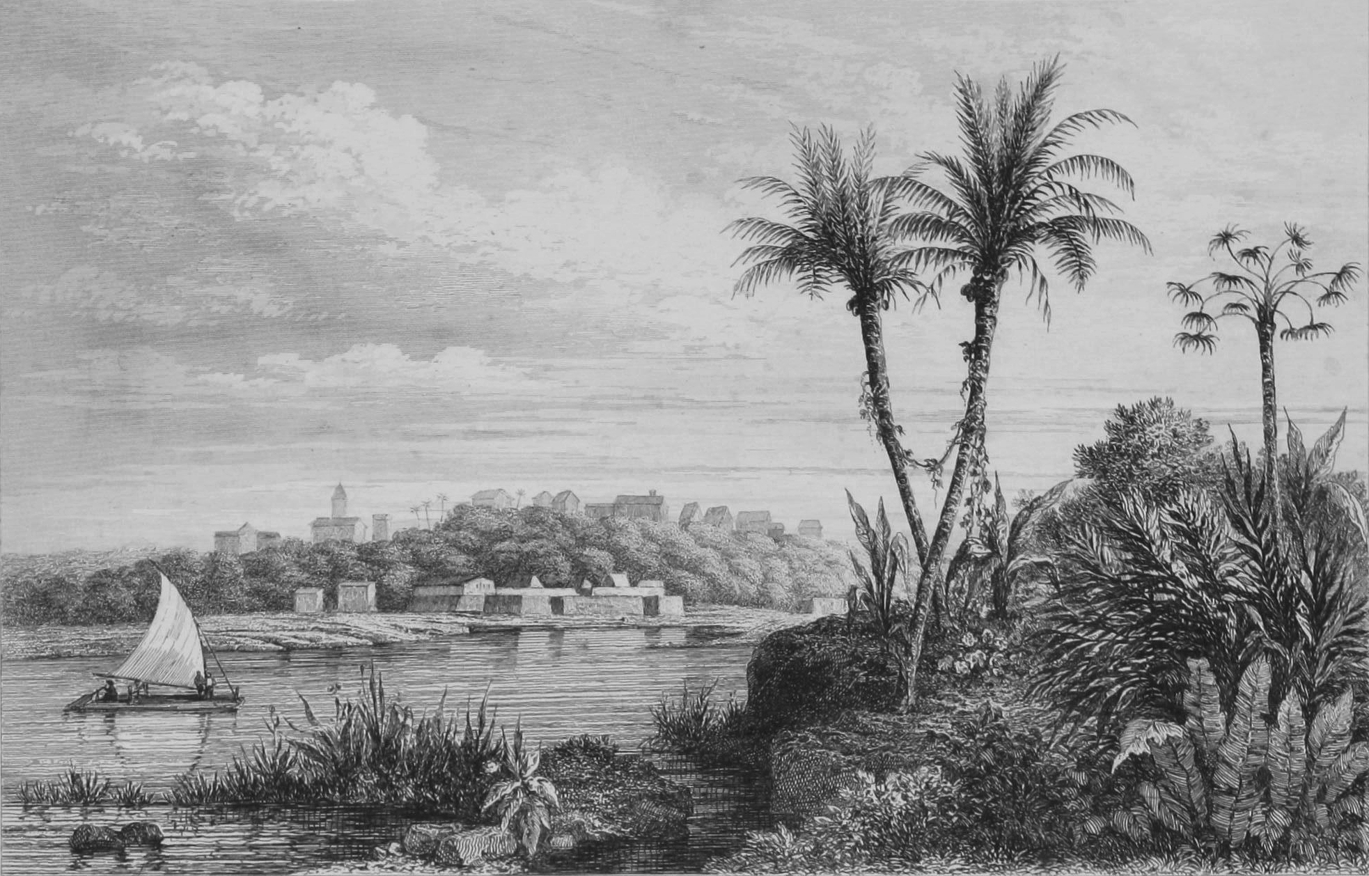 Former village of Parahyba - Engraving by A.F. Lemaitre